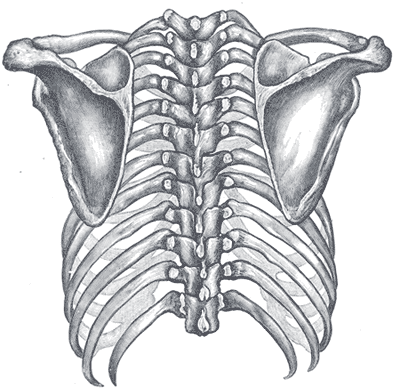 Posterior view of the thorax and shoulder girdle. (Morris.)